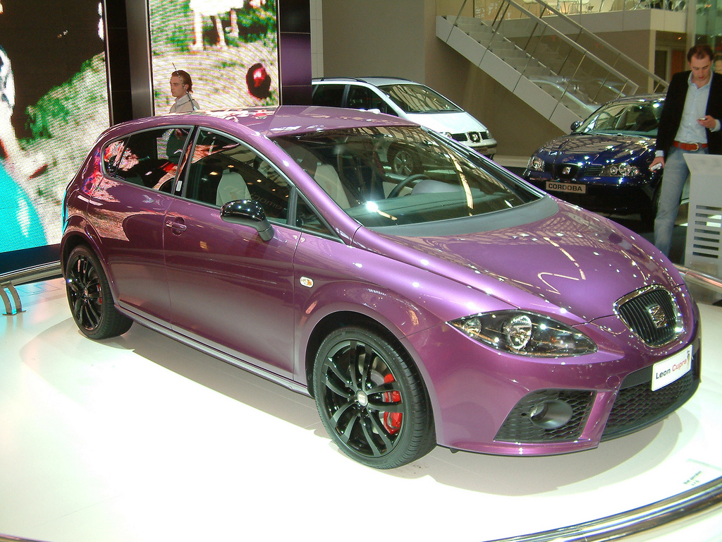 SEAT Leon Cupra by Shakira